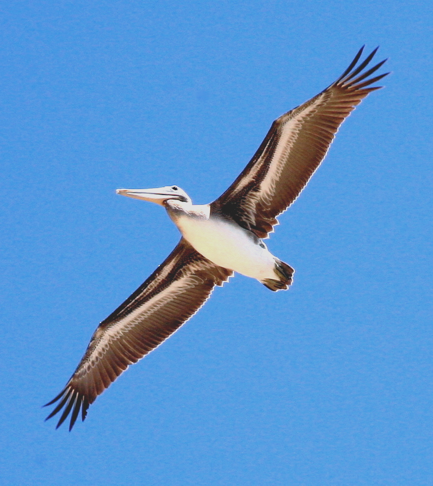 A Brown Pelican in flight, seen from underneath. Half Moon Bay, California.